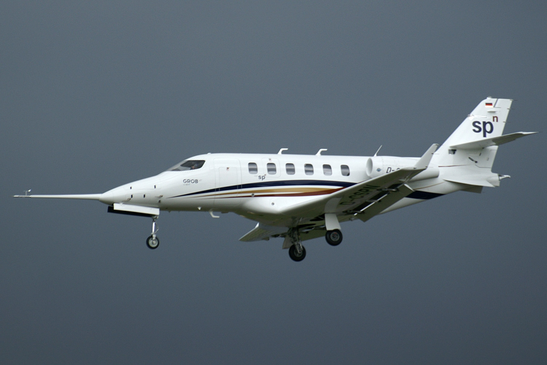 Grob SPn Utility Jet